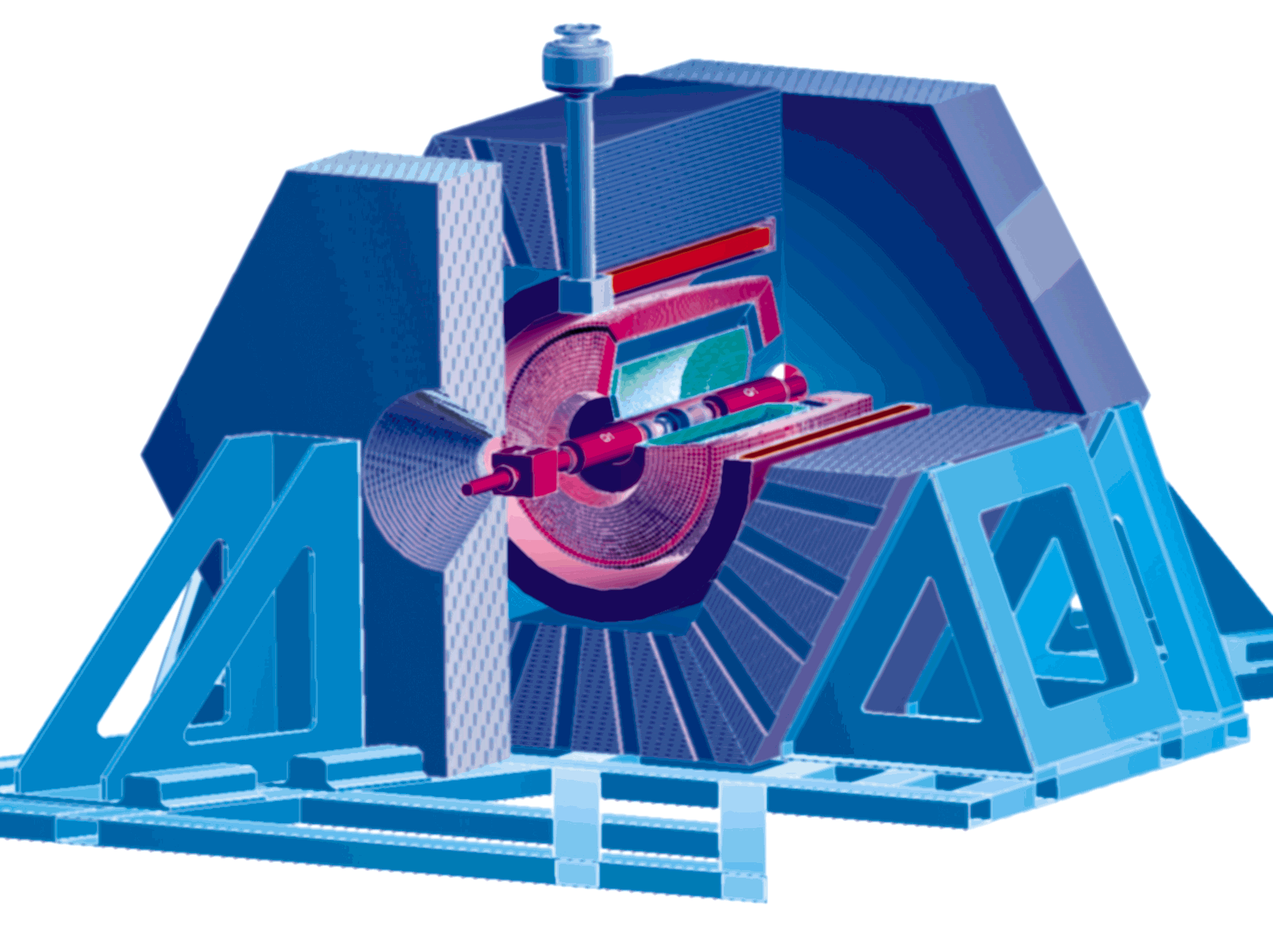 Schematic view of the BaBar detector at the SLAC B factory